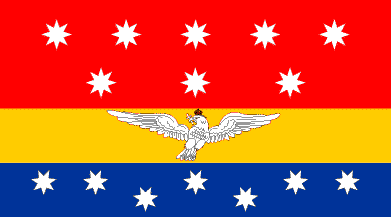 War ensign of the Principality of Wallachia, 1834, second model